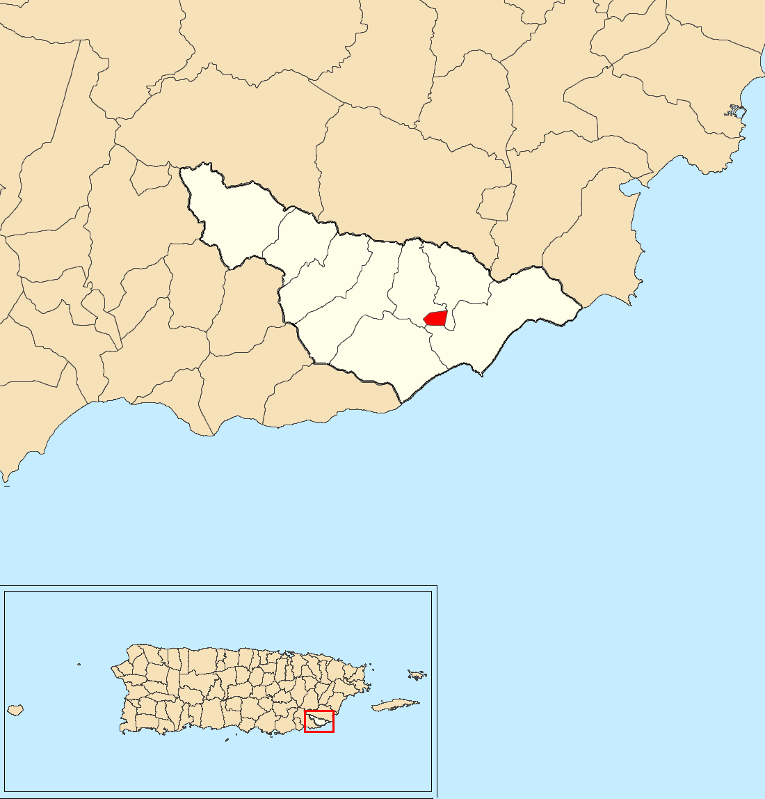 Maunabo barrio-pueblo, Maunabo, Puerto Rico locator map